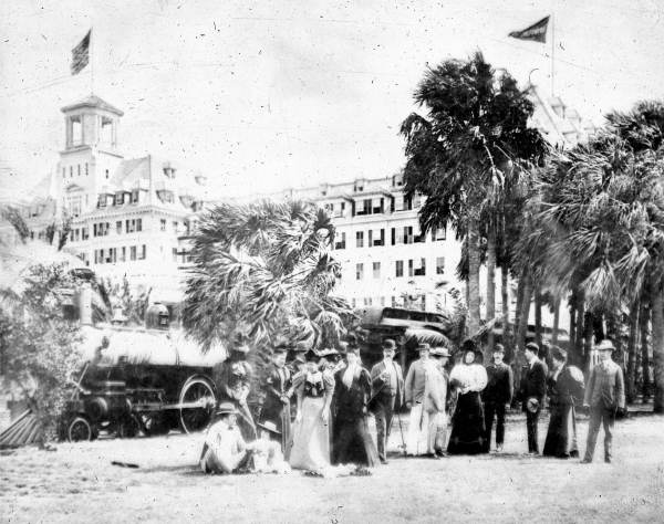 Local call number: N036611 Title: Royal Poinciana guests standing beside the hotel train Date: March 14, 1896 Physical descrip: 1 photonegative; b&w; 4 x 5 in. Series Title: General collection General note: Left to Right: Colonel Philip M. Lydig, Miss Helen Morton, Miss Gladys Vanderbilt, Miss Amy Townsend, Captain A.T. Rose, Mrs. Cornelius Vanderbilt, Miss Edith Bishop, Miss Mabel Gerry, Thomas Cushing, Edward Livingston, Dudley Winthrop, Craig Wadsworth, Miss Gertrude Vanderbilt, Lispenard Stewart, Harry P. Whitney, Miss Sybil Sherman, Cornelius Vanderbilt. Repository: State Library and Archives of Florida, 500 S. Bronough St., Tallahassee, FL 32399-0250 USA. Contact: 850.245.6700. Persistent URL: Florida Memory